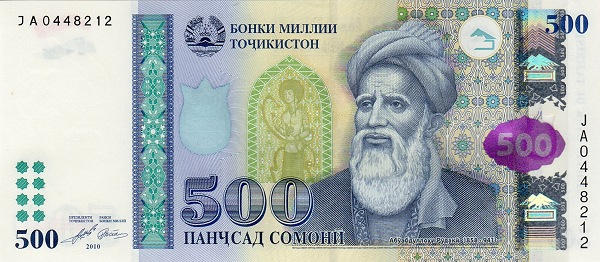 Tajik somoni of Rudaki.